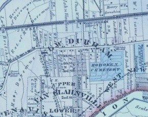 Rough area of Maisland